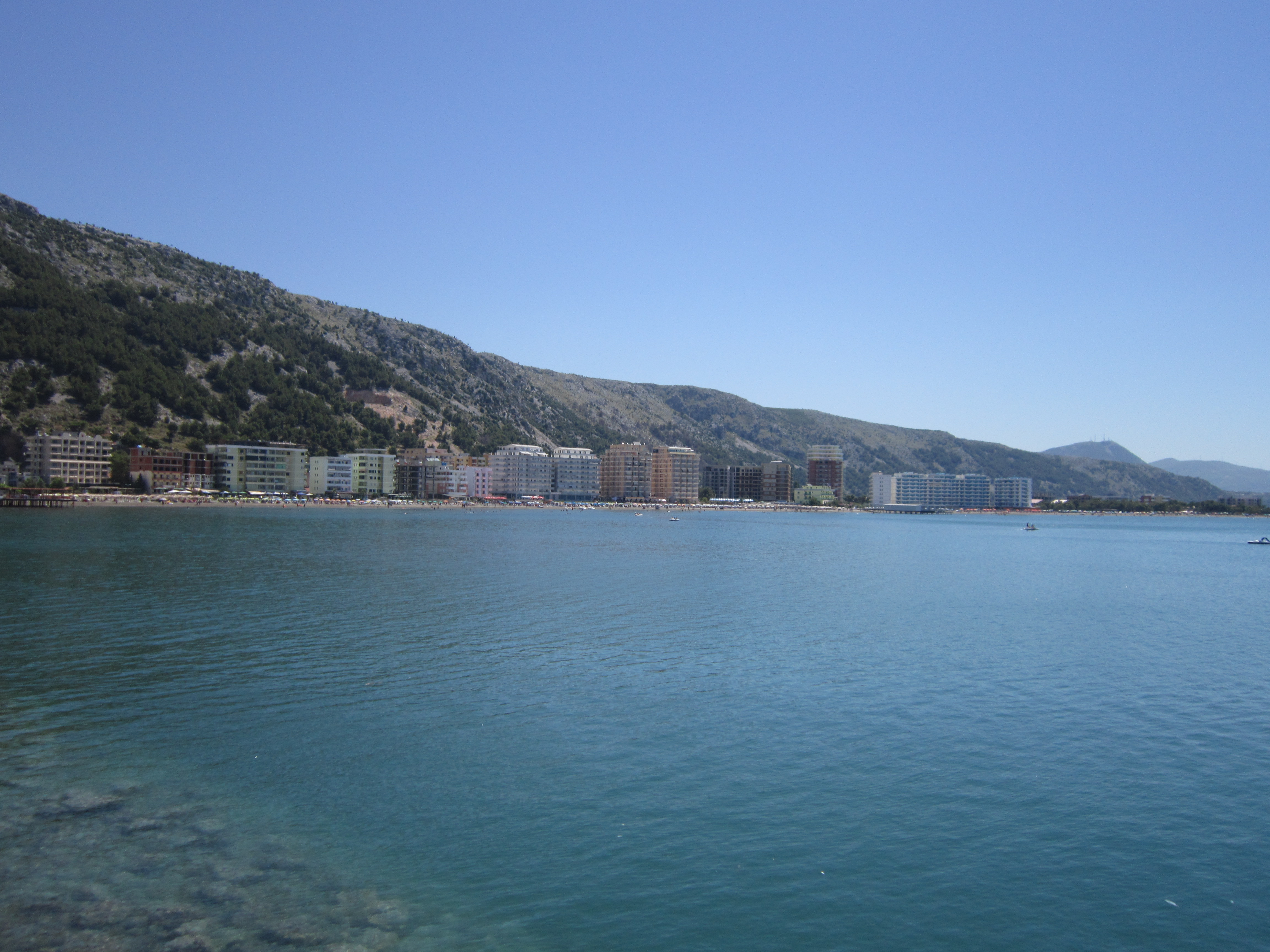 this is a picutre of shengjin from a distance.